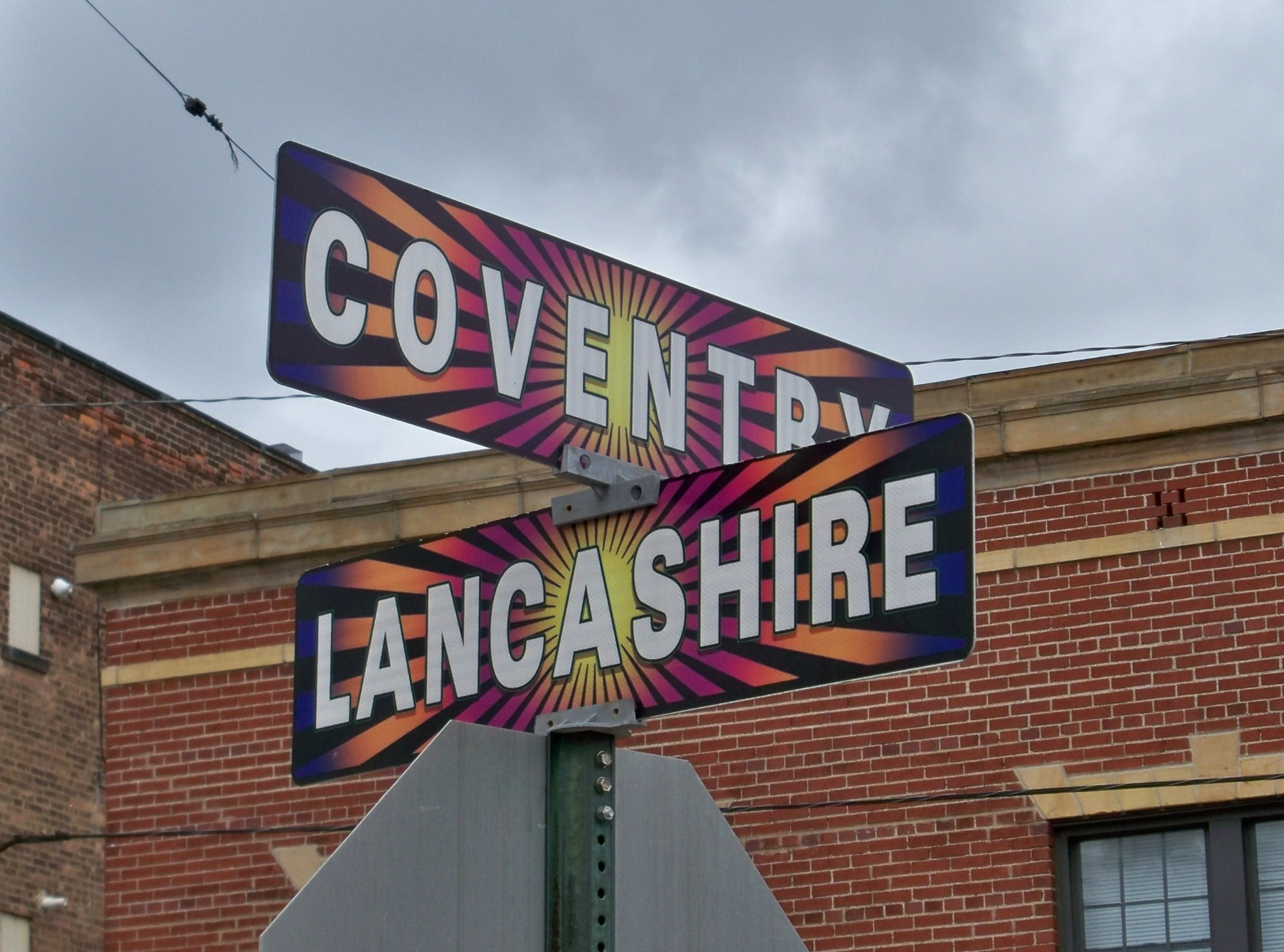 A typical street sign